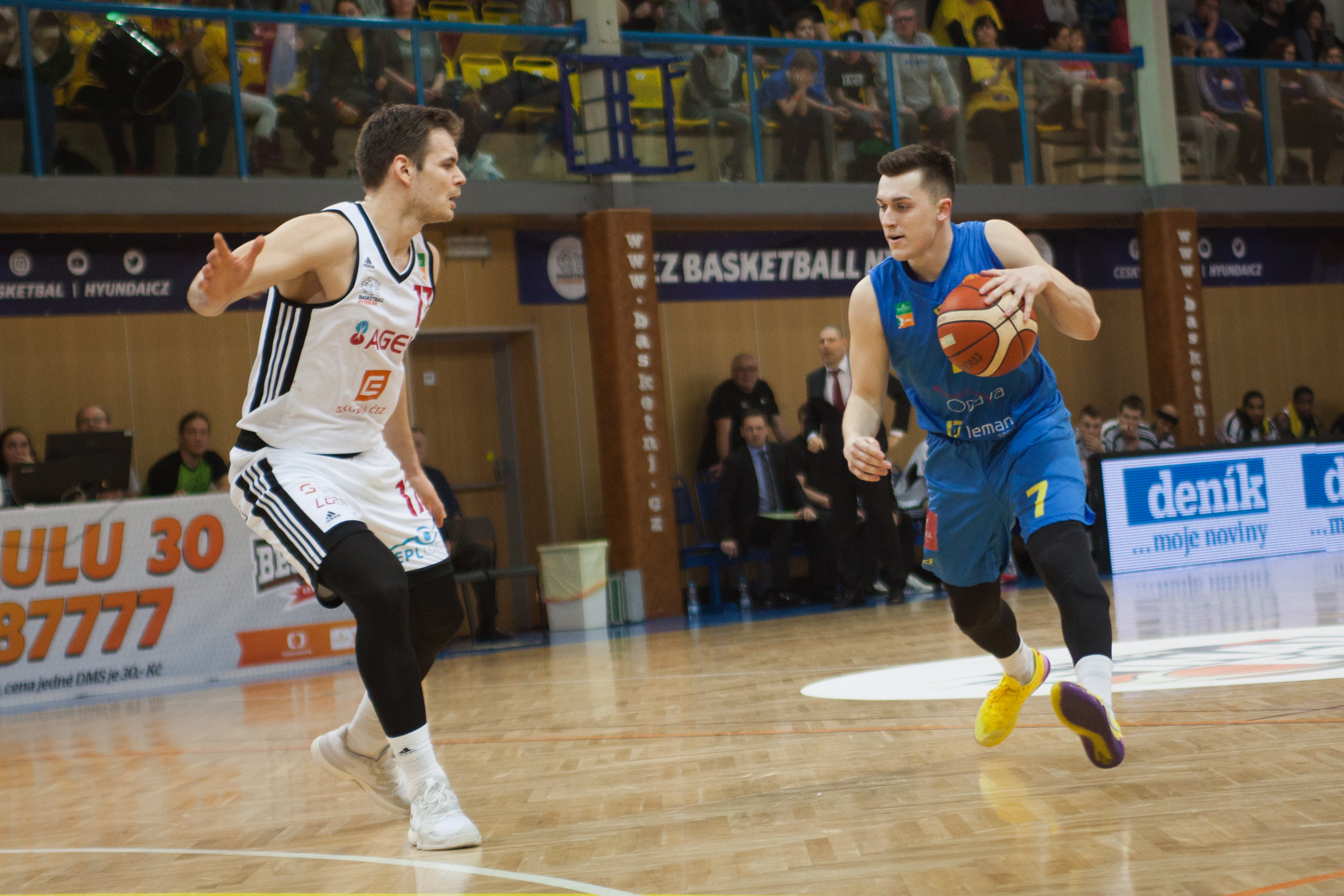 Final match of Czech basketball cup Hyundai Final4 between clubs BK Opava-ČEZ Basketball Nymburk (Nový Jičín, 10 February 2019)